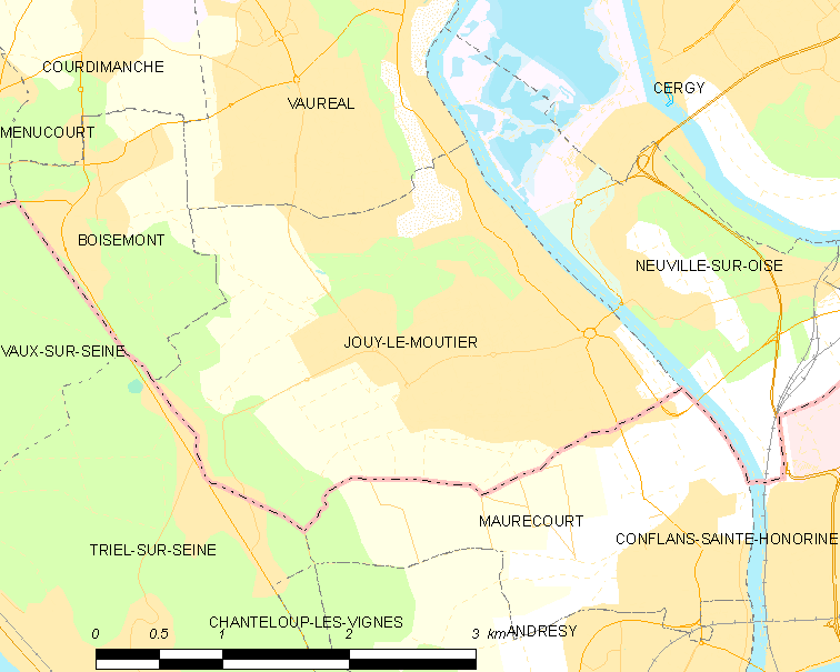 Map of French municipality Jouy-le-Moutier